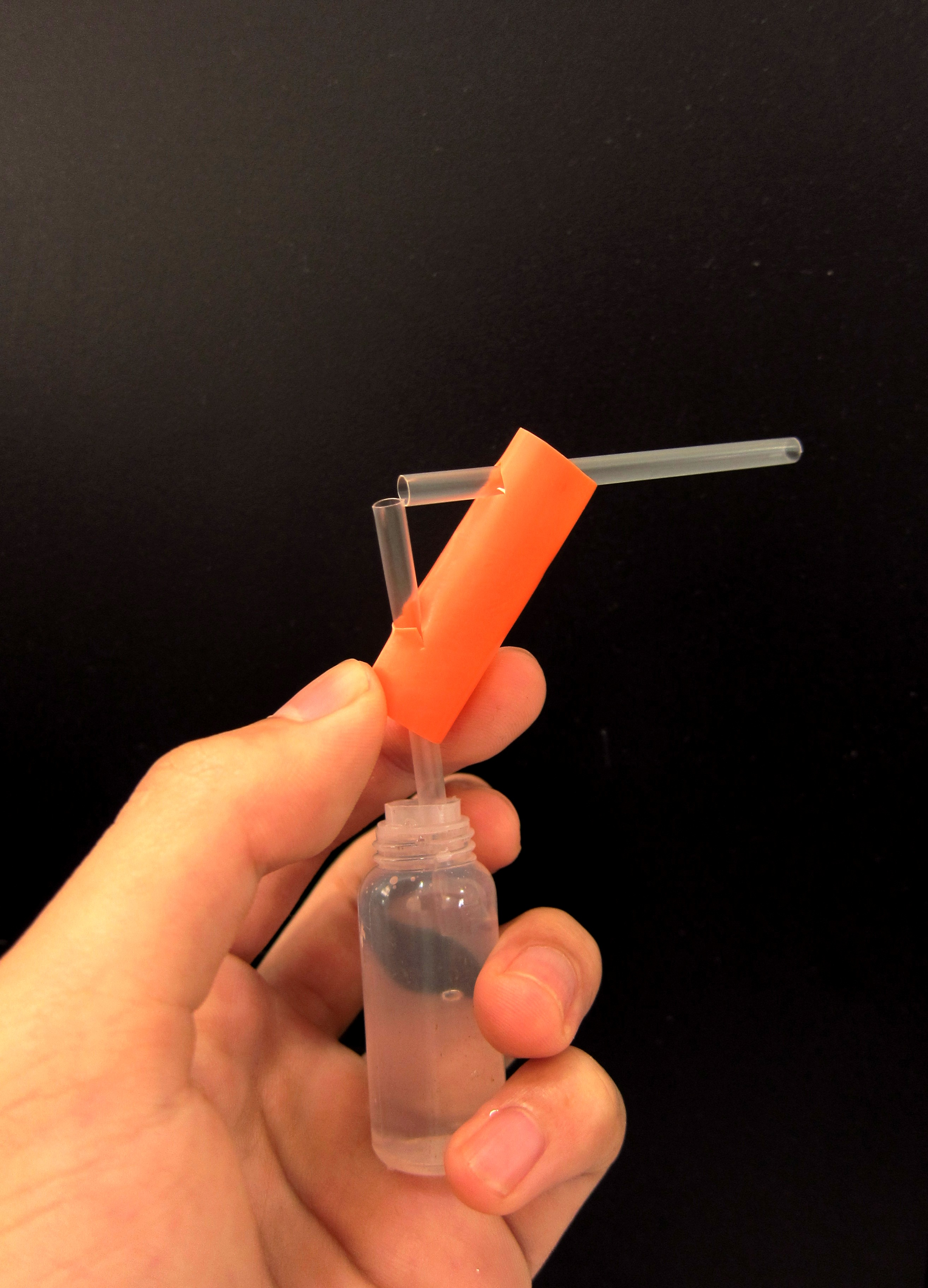 simple airbrush composed by one piece of thick drinking straw and two thin drinking straw